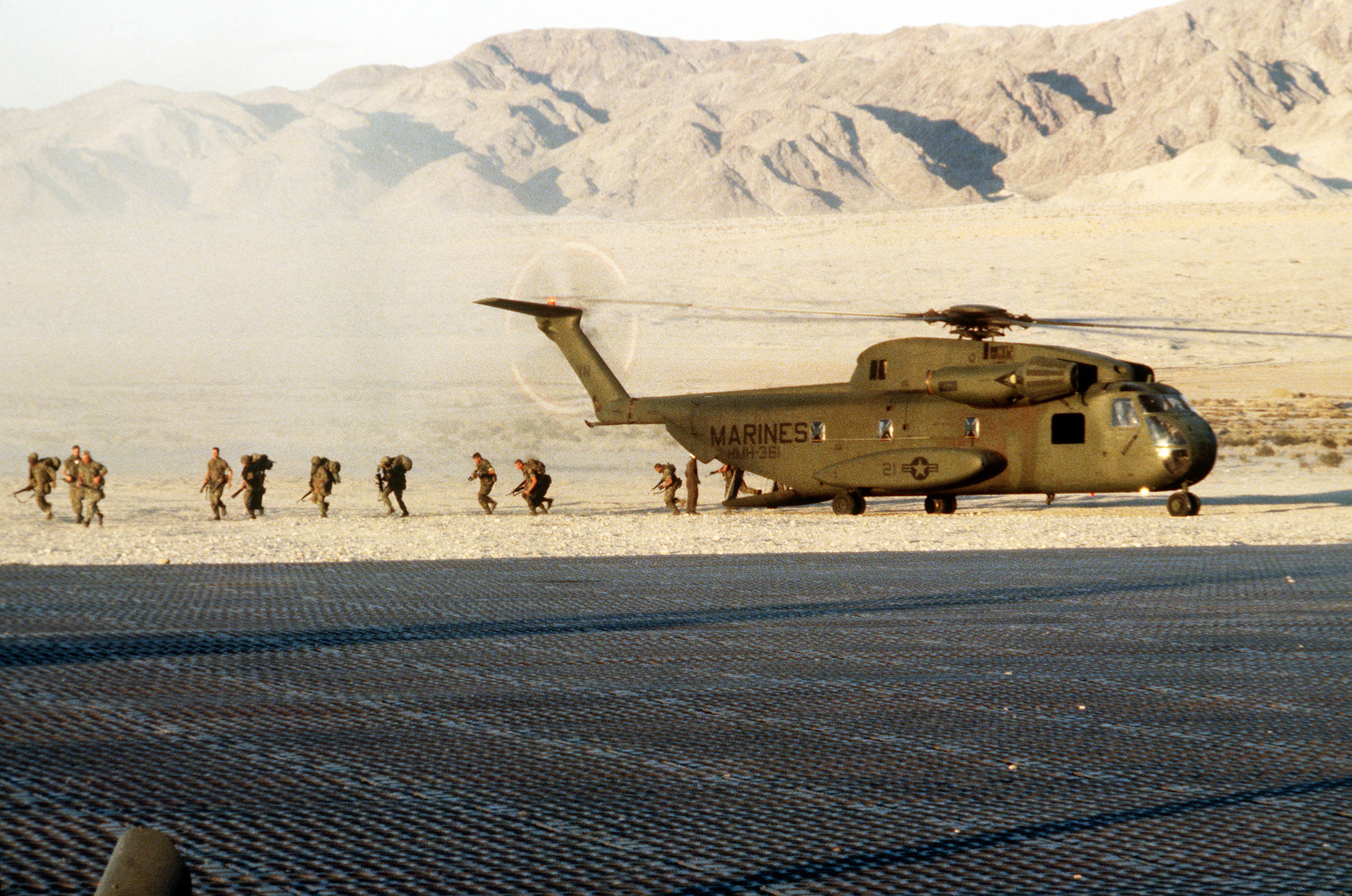 A U.S. Marine Corps Sikorsky CH-53D Sea Stallion helicopter from Marine Heavy Helicopter Squadron 361 (HMH-361) brings Marines of Company L into the area for Operation CAX 1-2-82 at the Marine Corps Air-to-Ground Combat Center at Twentynine Palms, California (USA).